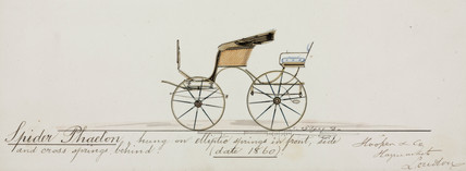 Spider Phaeton, 1860 - Coloured drawing by J Gilfoy of a small carriage, 'hung on elliptic springs in front, side and cros springs behind', designed by George N Hooper. From a collection of carriage designs by Hooper & Co (Coach Builders) Ltd, Haymarket, London.